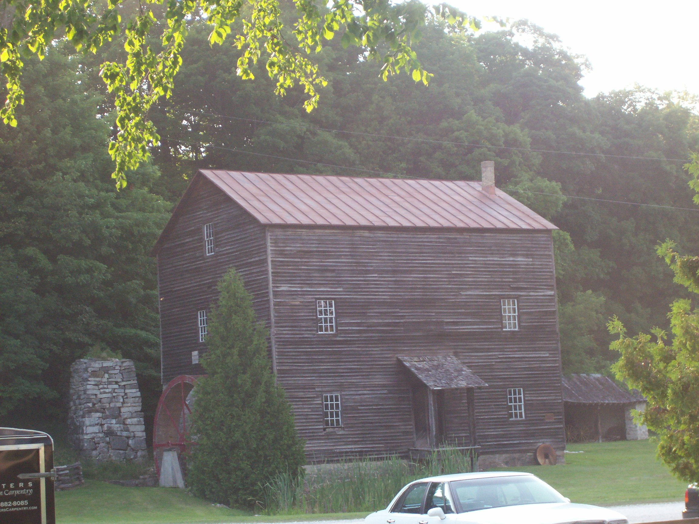 The Rock Mill registered historic place near Maribel, Wisconsin, on County R (formerly Wisconsin Highway 141).